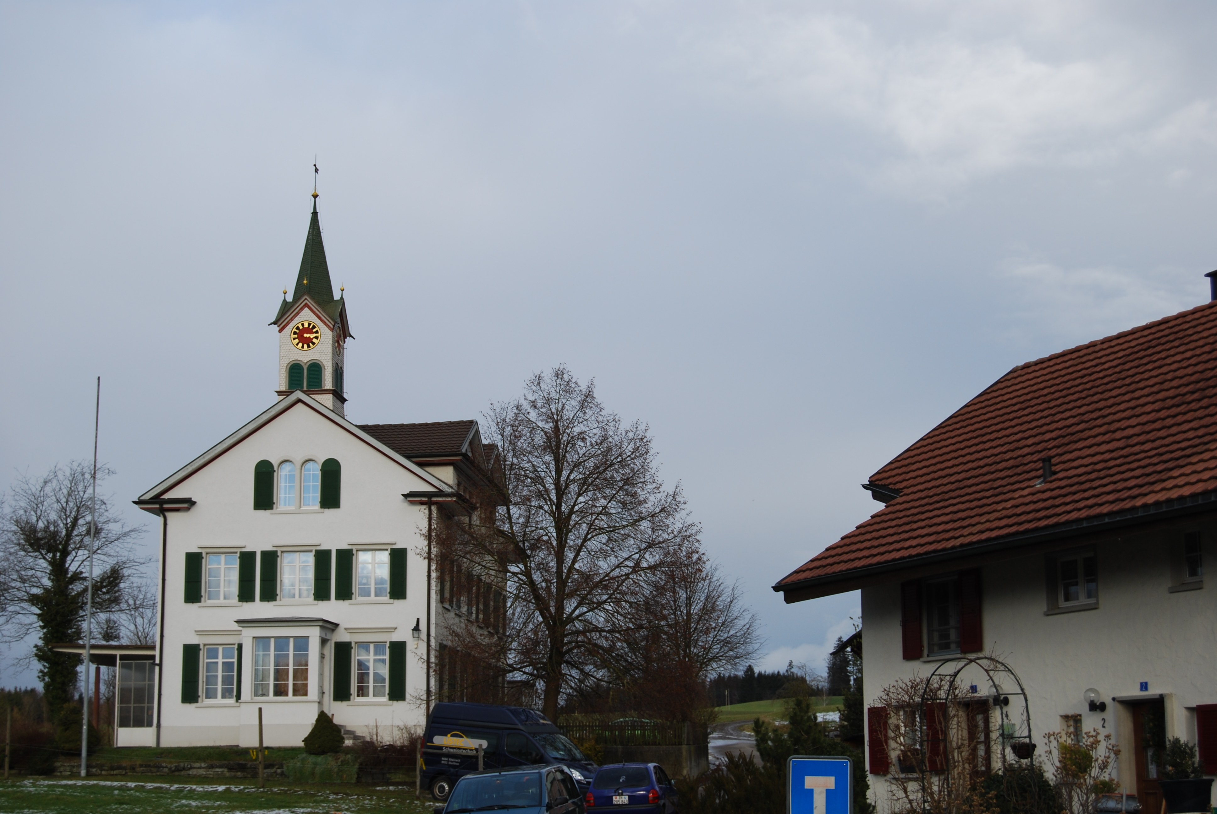 School at Bertschikon, canton of Zürich, SwitzerlandEsperanto: Lernejo en Bertschikon, Kantono Zuriko, Svislando